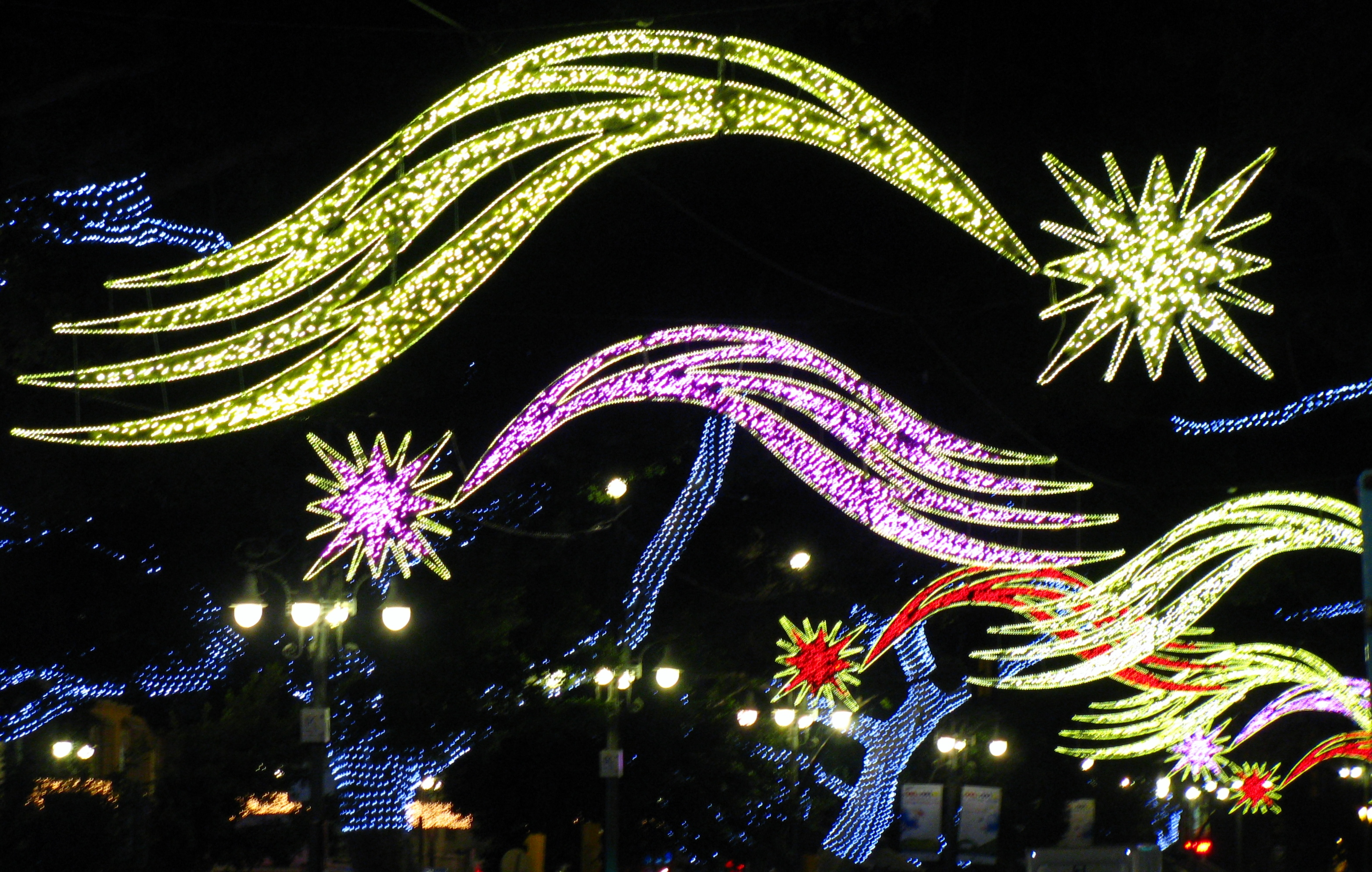 Christmas lights in Málaga, Spain.